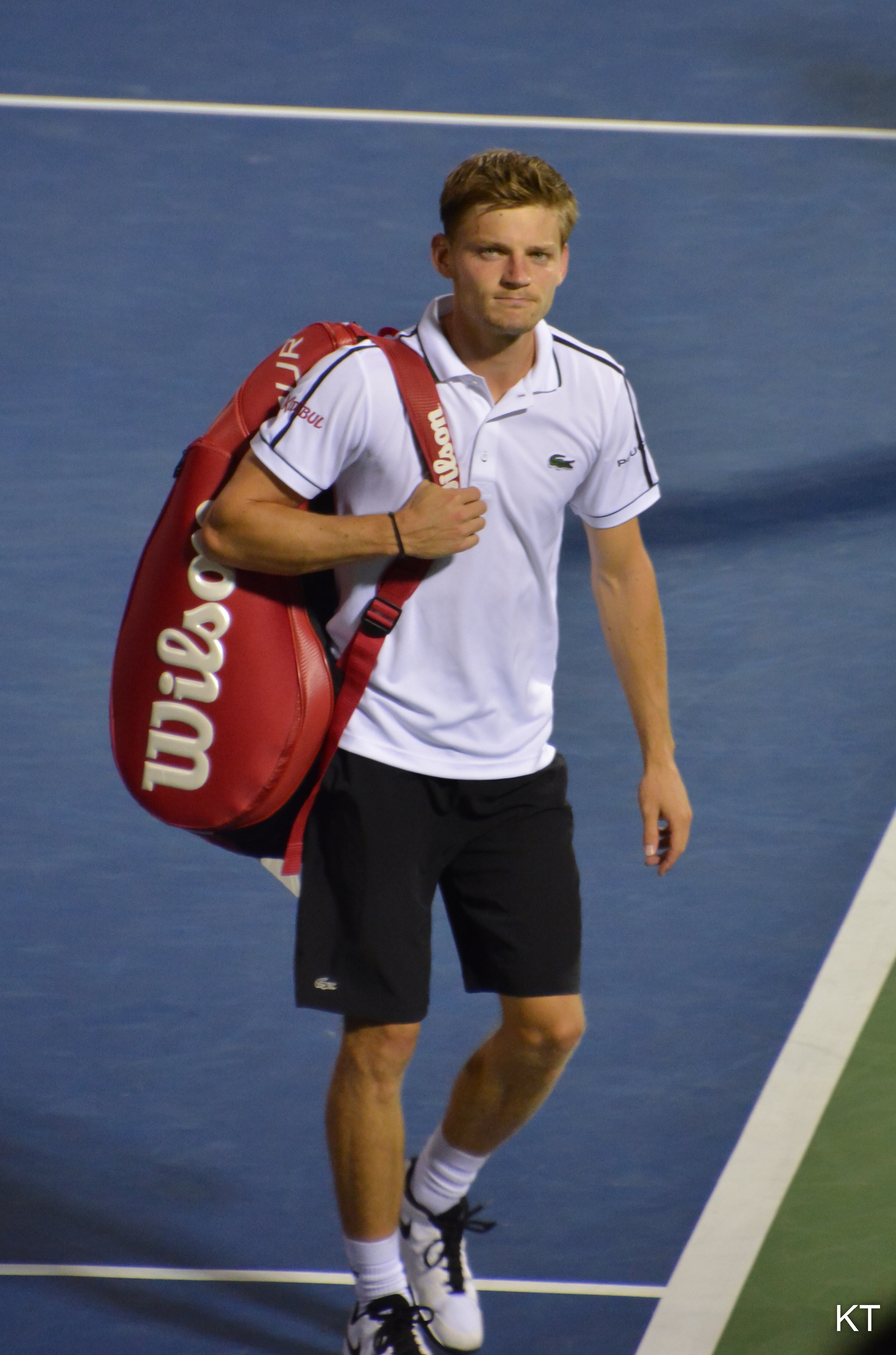 Coupe Rogers, Montreal 2015.